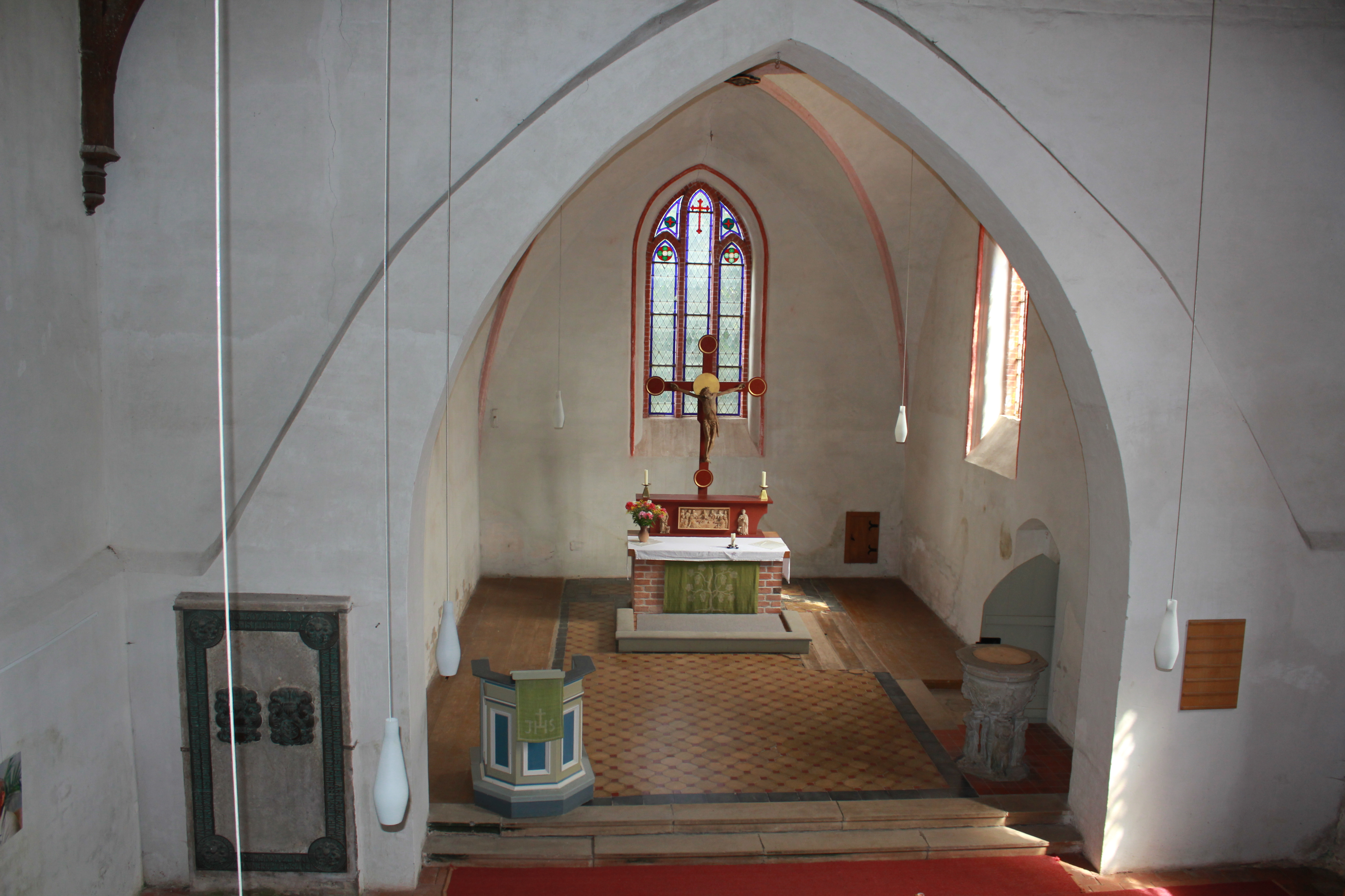 Church in Woosten, Germany